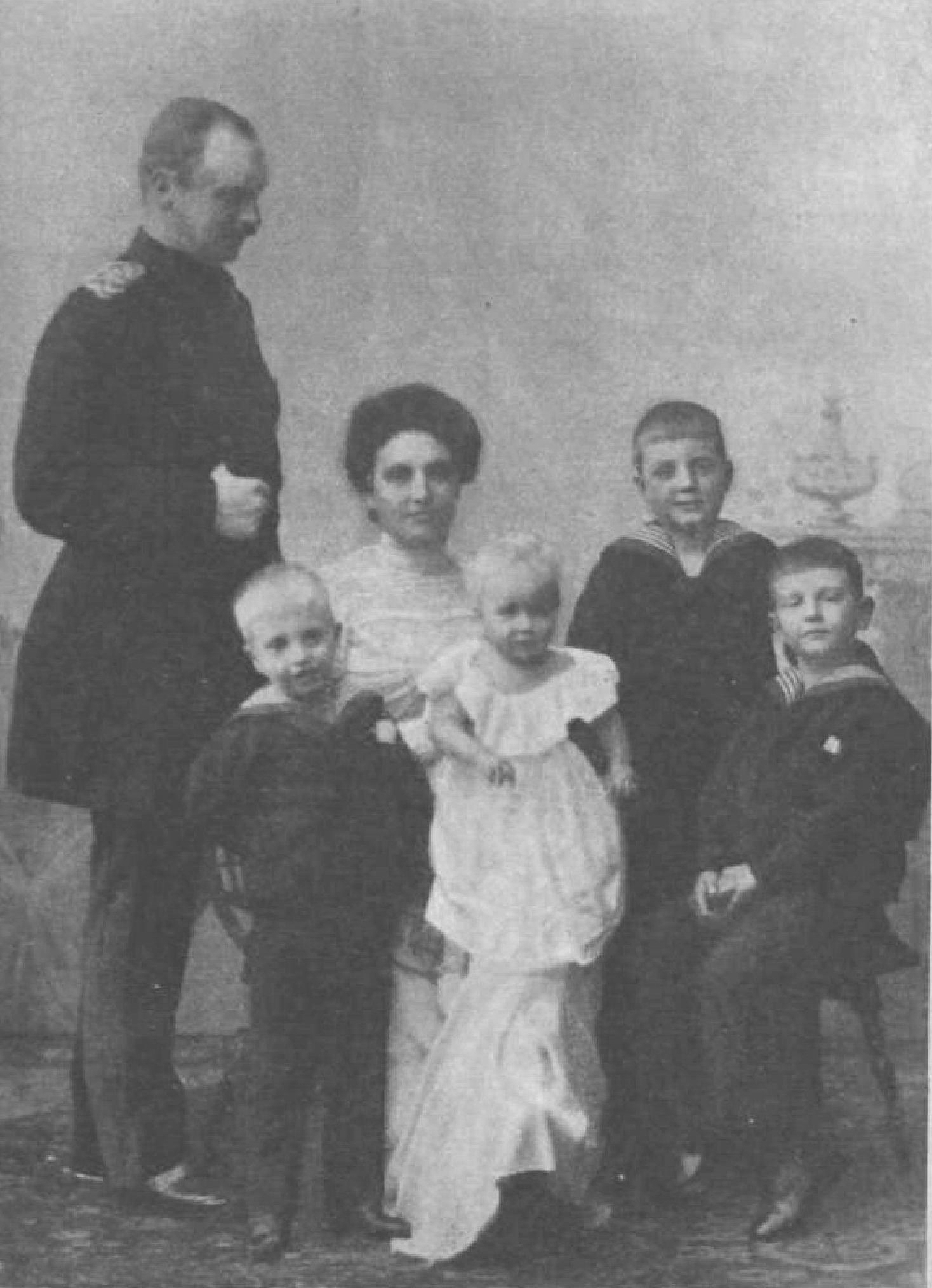 Frederick Augustus III of Saxony and Archduchess Luise of Austria with their children